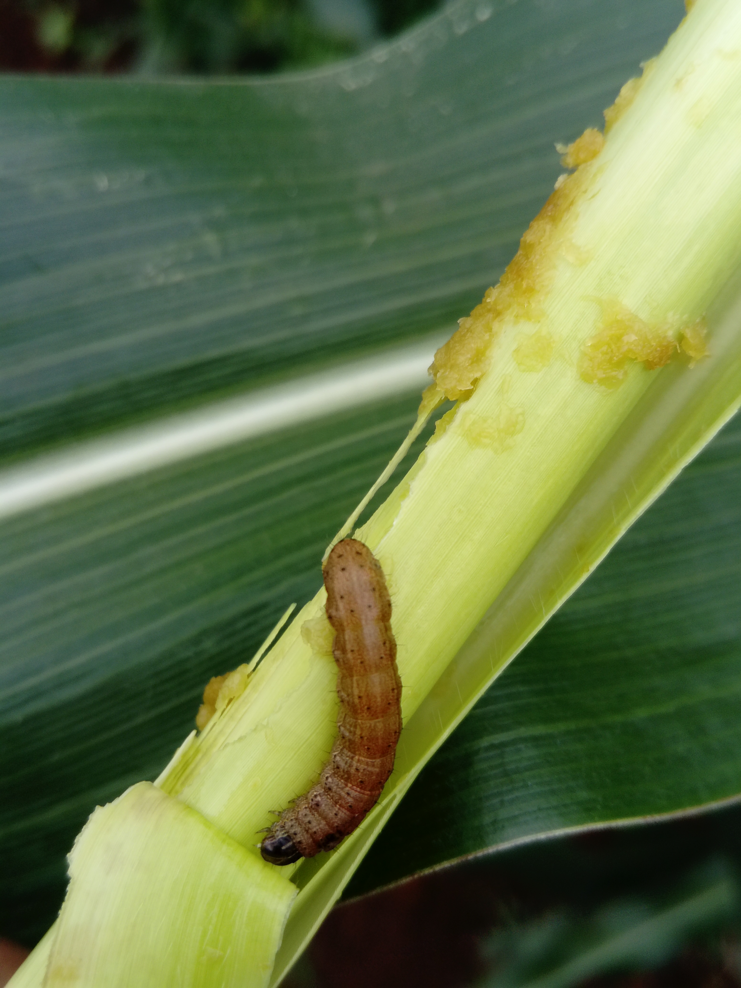 Cartridge caterpillar attacking corn in Brazil.